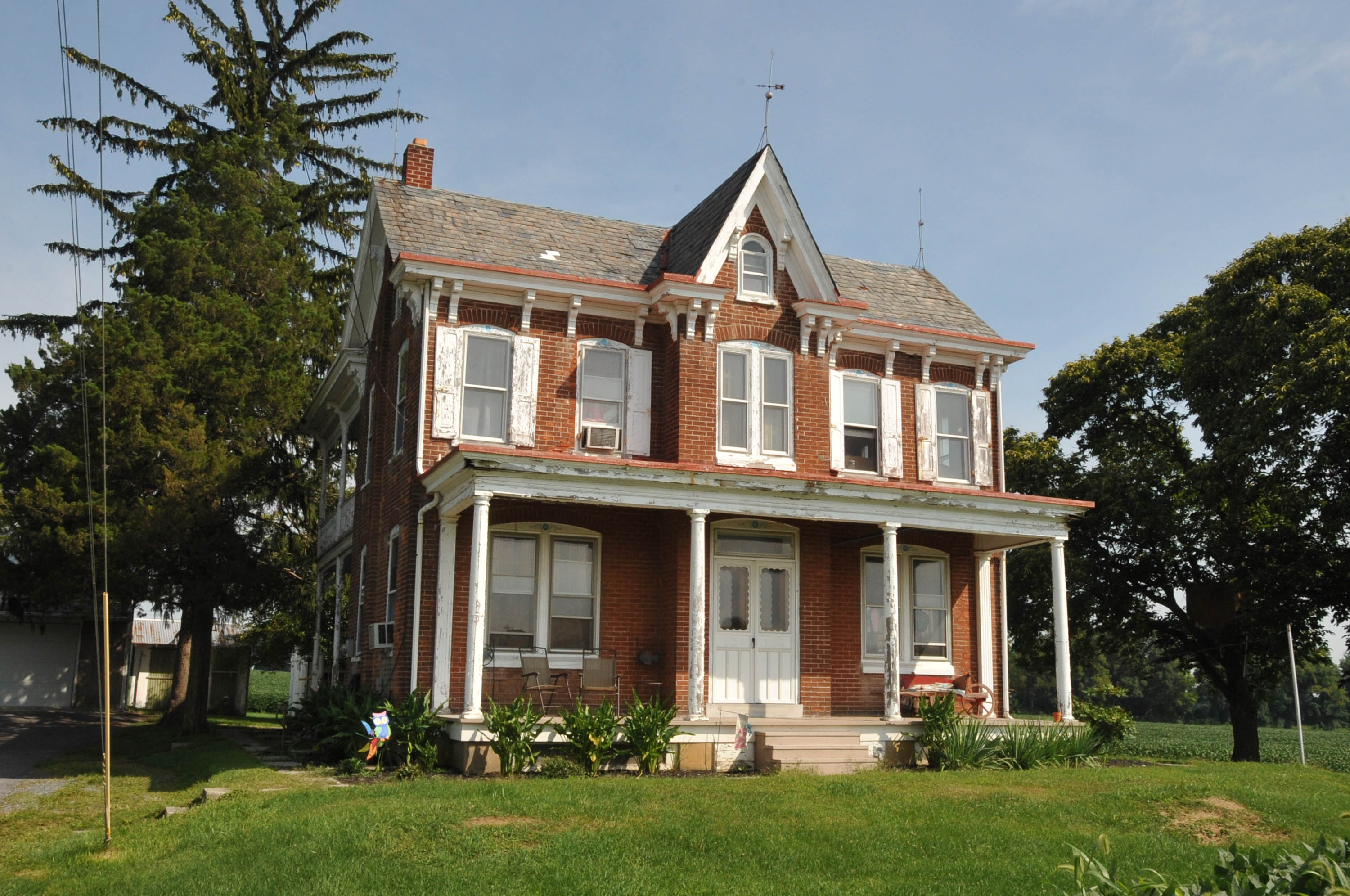 MAIN FARMHOUSE BUILT IN 1905